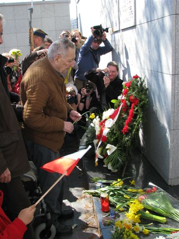 Marek Edelman (1919-2009), Polish medicine doctor